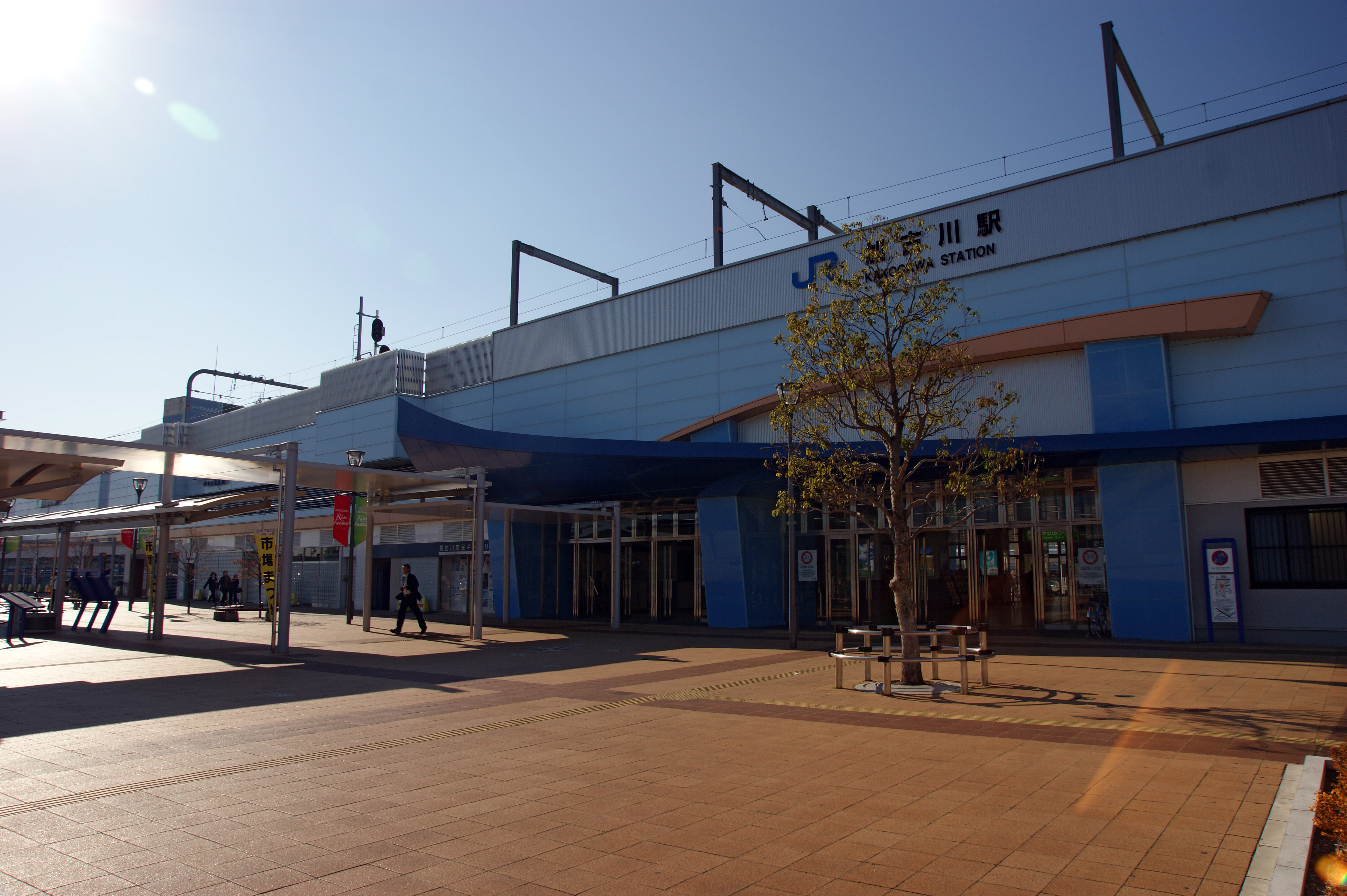 Kakogawa Station, Kakogawa, Hyogo prefecture, Japan